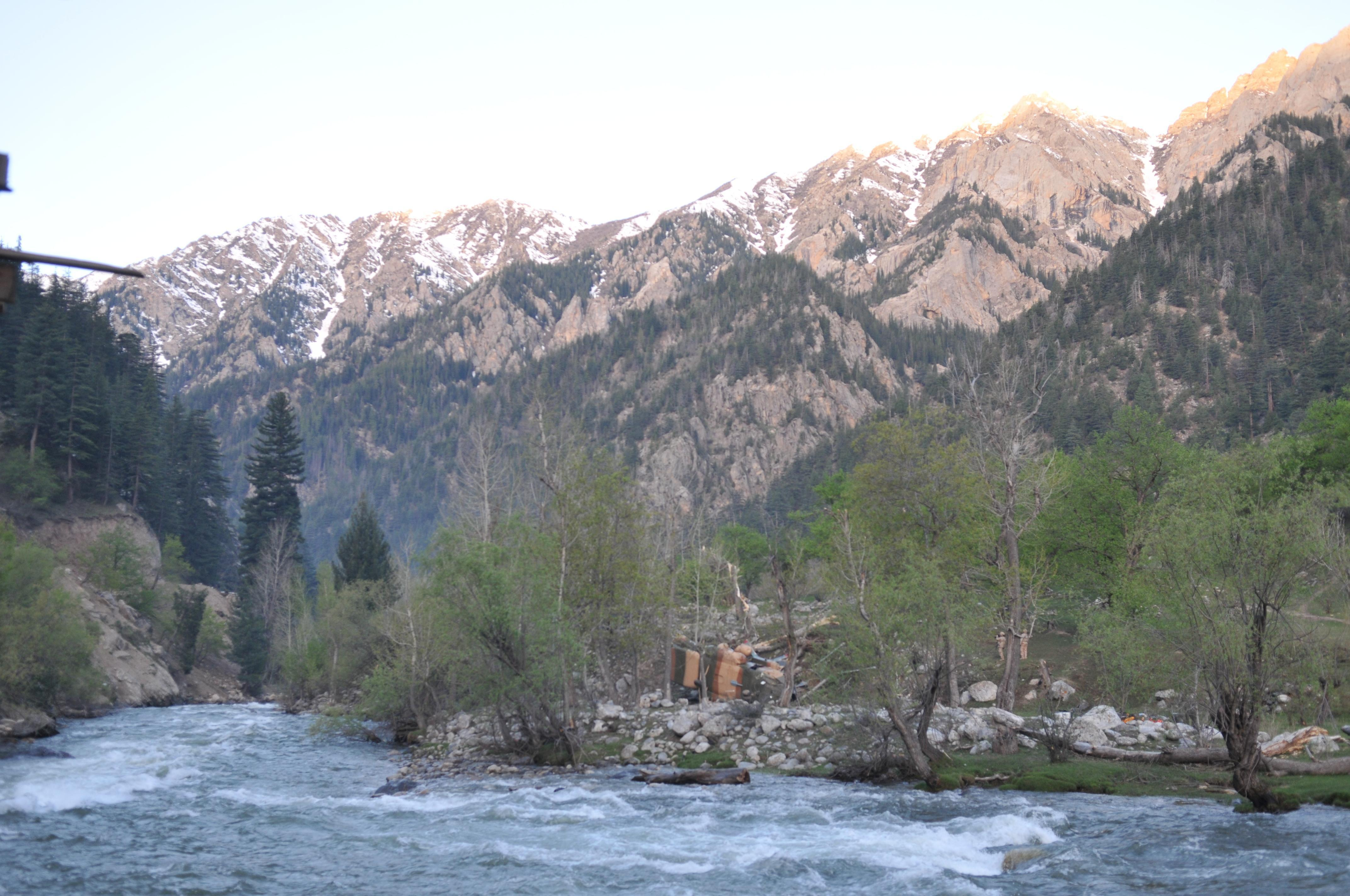 Army Pathfinders of Fox Company, 2nd Battalion, 10th Combat Aviation Brigade Fort Drum, N.Y., arrive at the site of a Afghan Air Force Mi-17 helicopter crash in the Nuristan province, Afghanistan. The Pathfinders are tasked to provide security around the perimeter and disassemble the aircraft so it can be sling loaded by a CH-47 Chinook and taken to an airbase. (Photo ID: 409960)